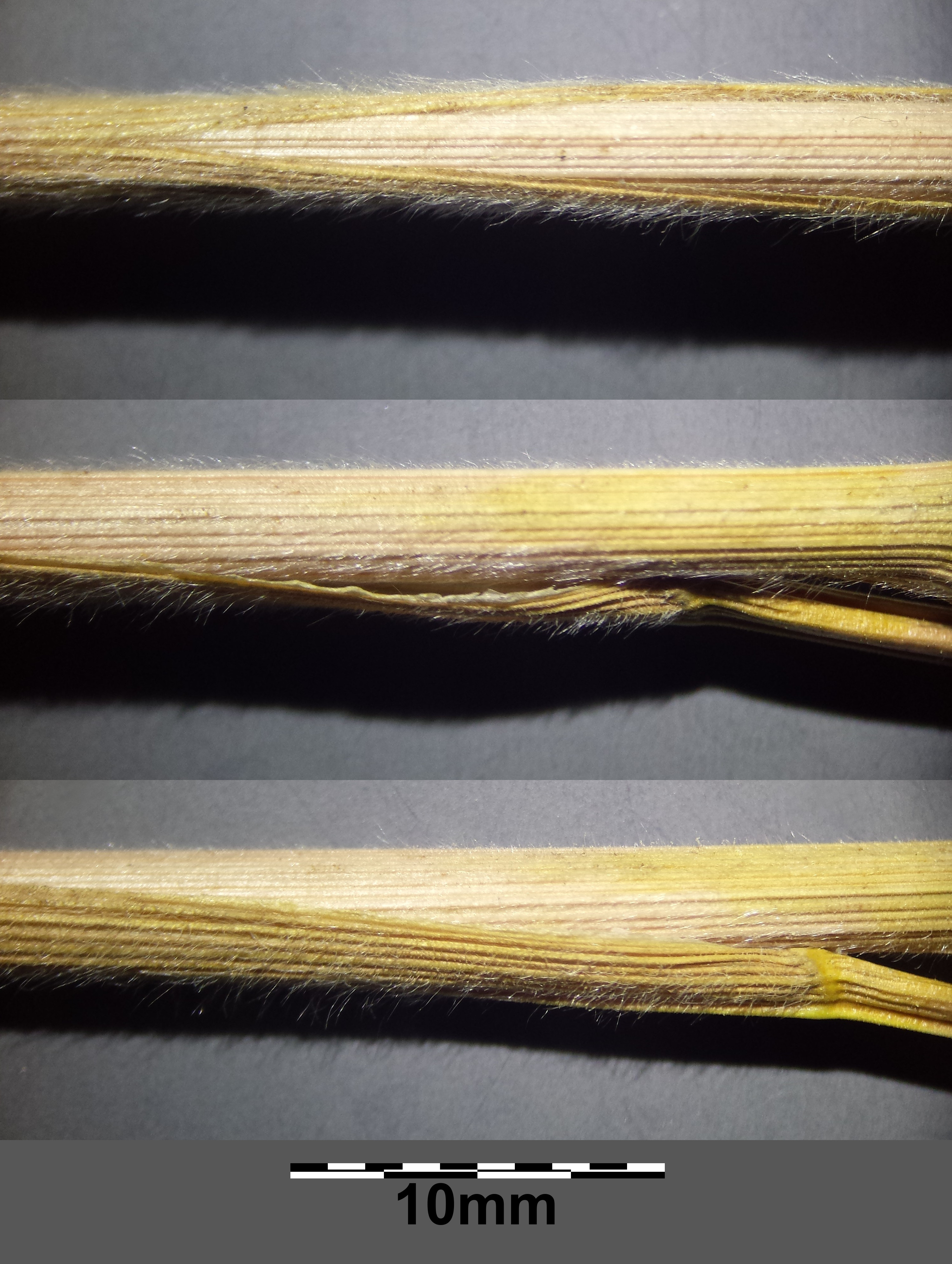 Hairy leaf sheath Taxonym: Melica transsilvanica (subsp. transsilvanica) ss Fischer et al. EfÖLS 2008 ISBN 978-3-85474-187-9 Location: "In der Hölle" near Wetzleinsdorf, district Korneuburg, Lower Austria - ca. 250 m a.s.l. Habitat: semi-dry grassland